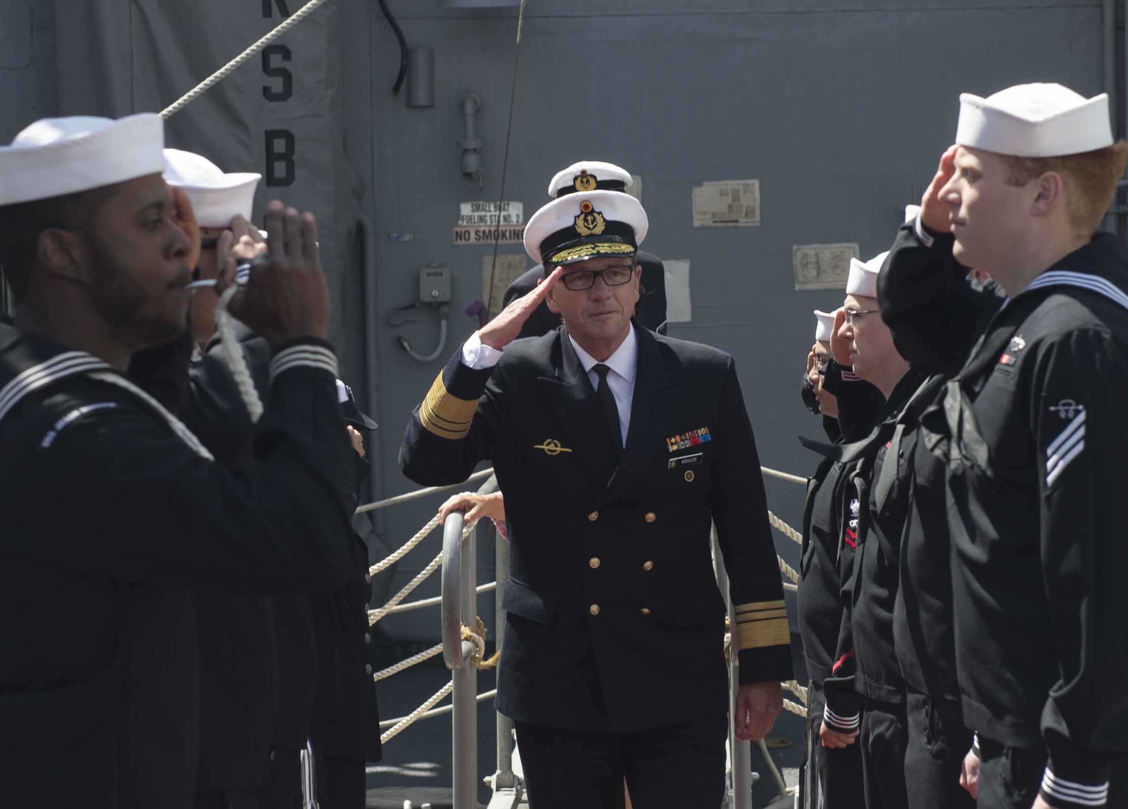 Kiel, Germany. Vice Adm. Andreas Krause, German chief of naval operations, is piped aboard the guided-missile destroyer USS Jason Dunham (DDG 109). Jason Dunham is conducting naval operations in the U.S. 6th Fleet area of operations in support of U.S. national security interests in Europe.